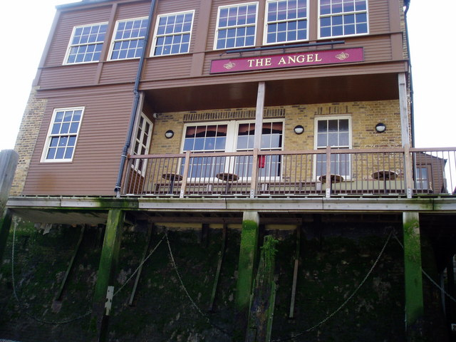 The Angel Bermondsey Wall East Riverside view of the pub that for many years had the address of 21 Rotherhithe Street.